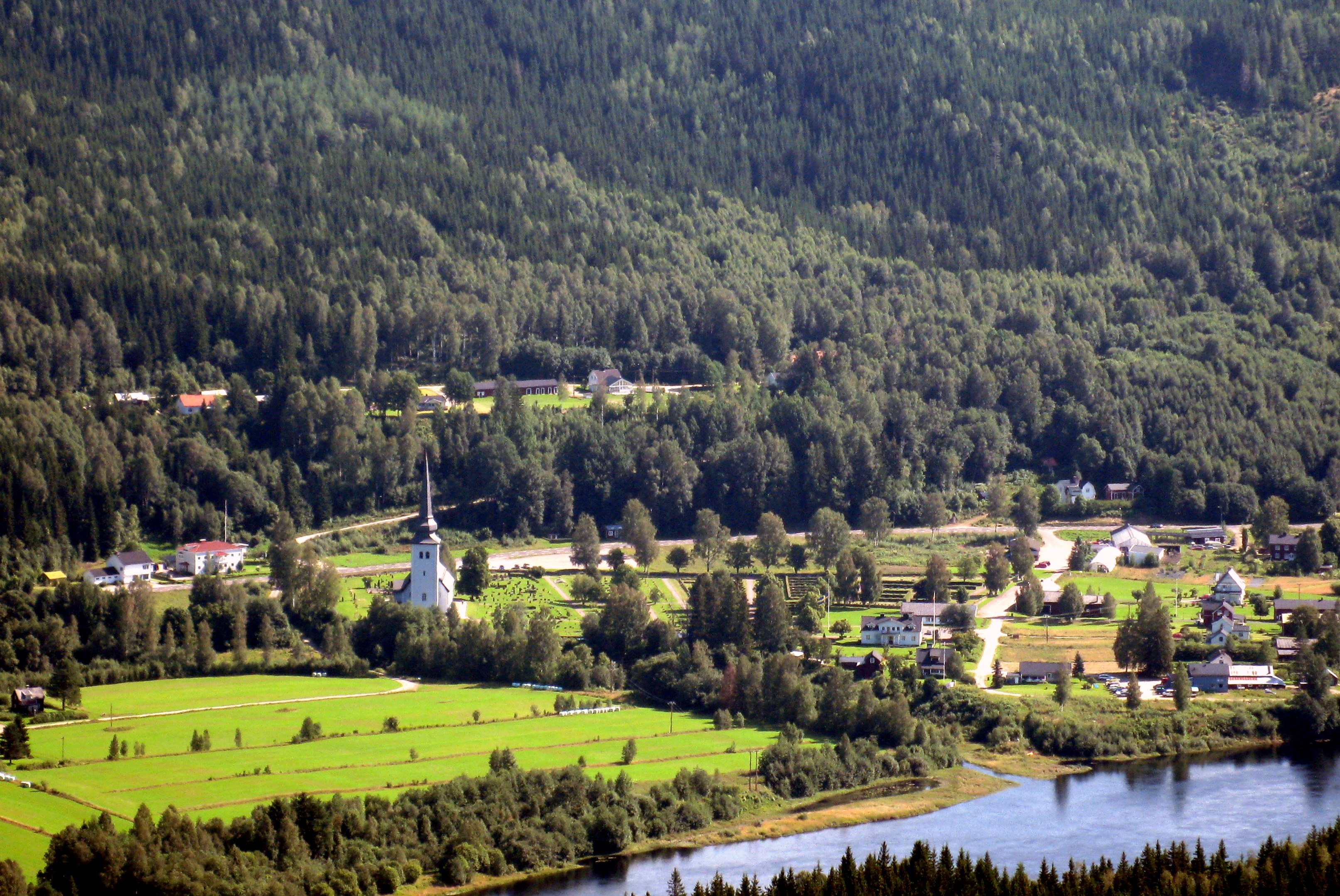 Dalby kyrka